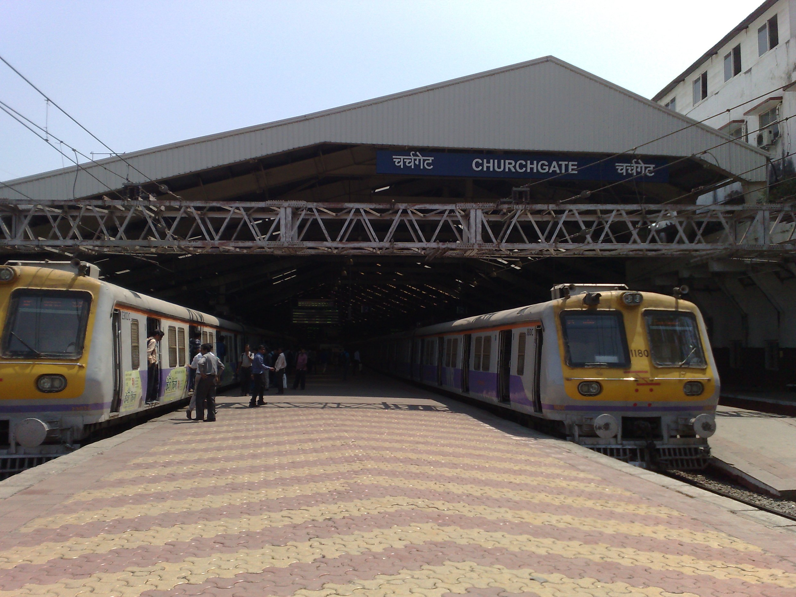 Churchgate station - External view